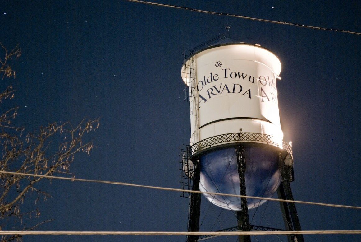 The watertower in Olde Town Arvada